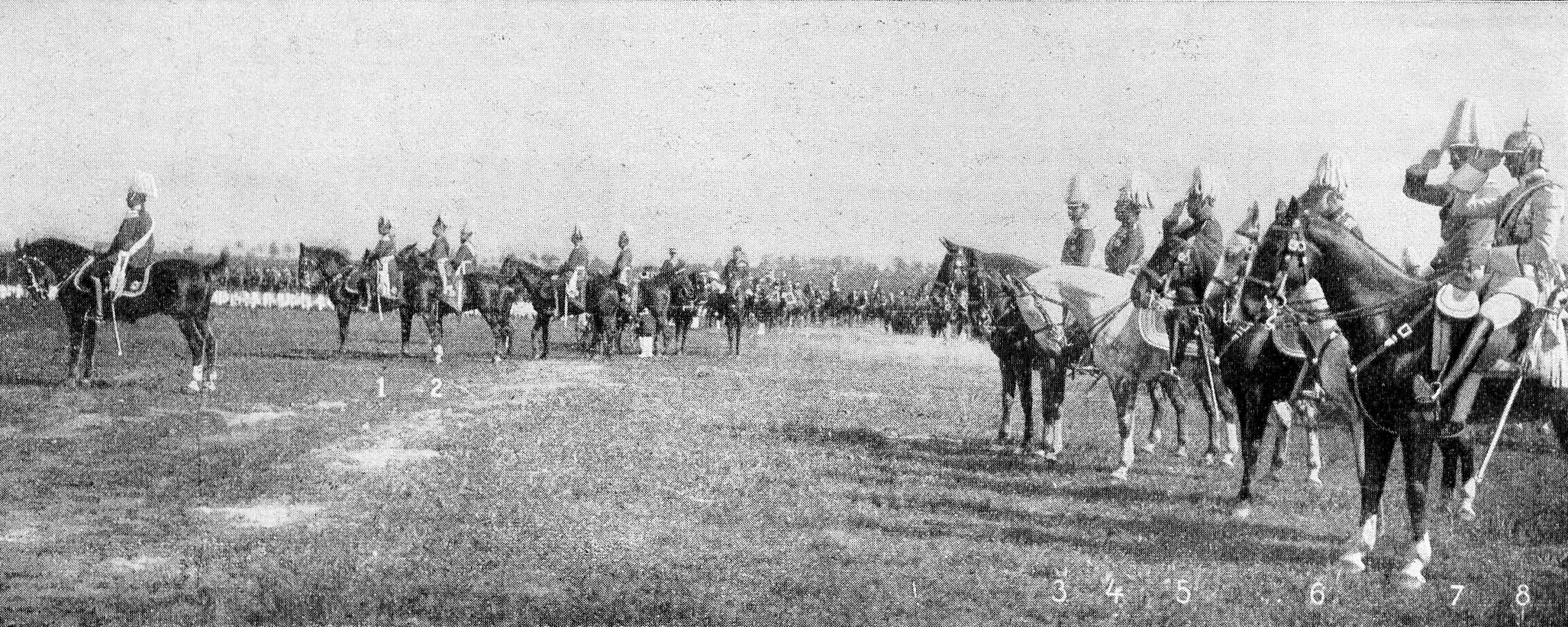 This images shows a quite scene during a military training called "Herbstmanöver" in autumn 1909 in Karlsruhe, southern germany. Depicted and highlighted by numbers are key figures of the largely diversified political status of that time. The Kaiser Wilhelm II is at position 1. The photo about that exercise was published in the catholic german magazine "Deutscher Hausschatz" in 1910 The Kaiser (1) with the Grand Duke of Baden (2), Prince Oskar of Prussia (3), the Grand Duke of Hesse(4), the Grand Duke of Mecklenburg-Schwerin (5), Prince Louis of Bavaria (6), Prince Max of Baden (7) and the Crown Prince (8).